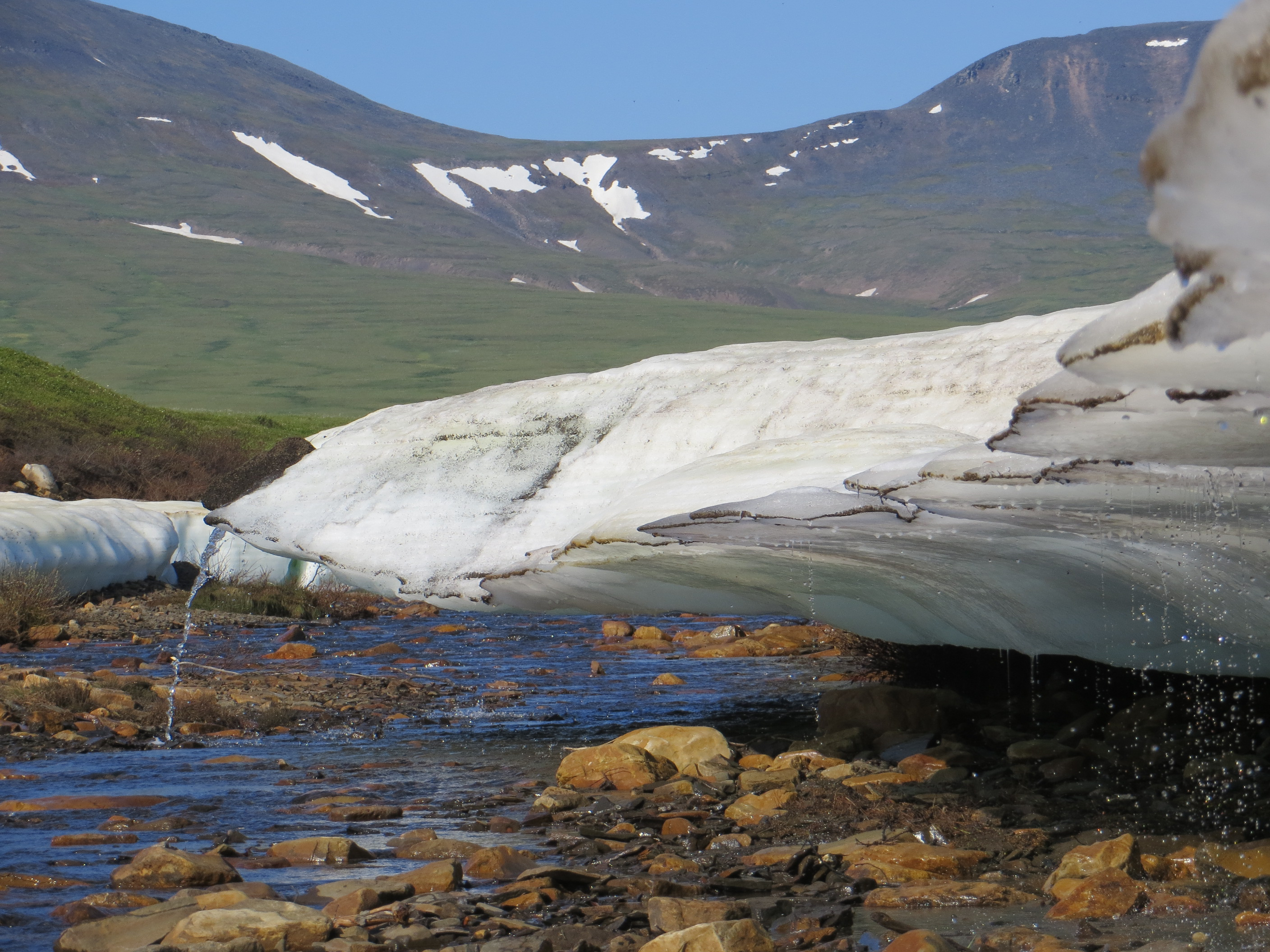 Aufeis on the Banks of an arctic river, view from downunder, Northwest Territories, Canada.